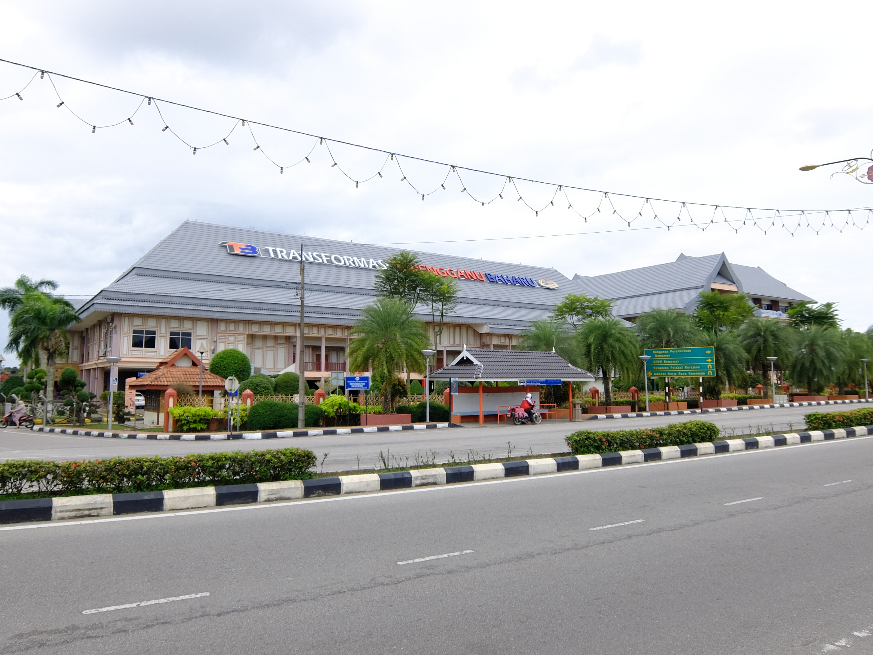 Kemaman Municipal Council, Chukai, Kemaman, Terengganu, MalaysiaBahasa Melayu: Majlis Perbandaran Kemaman, Chukai, Kemaman, Terengganu, Malaysia